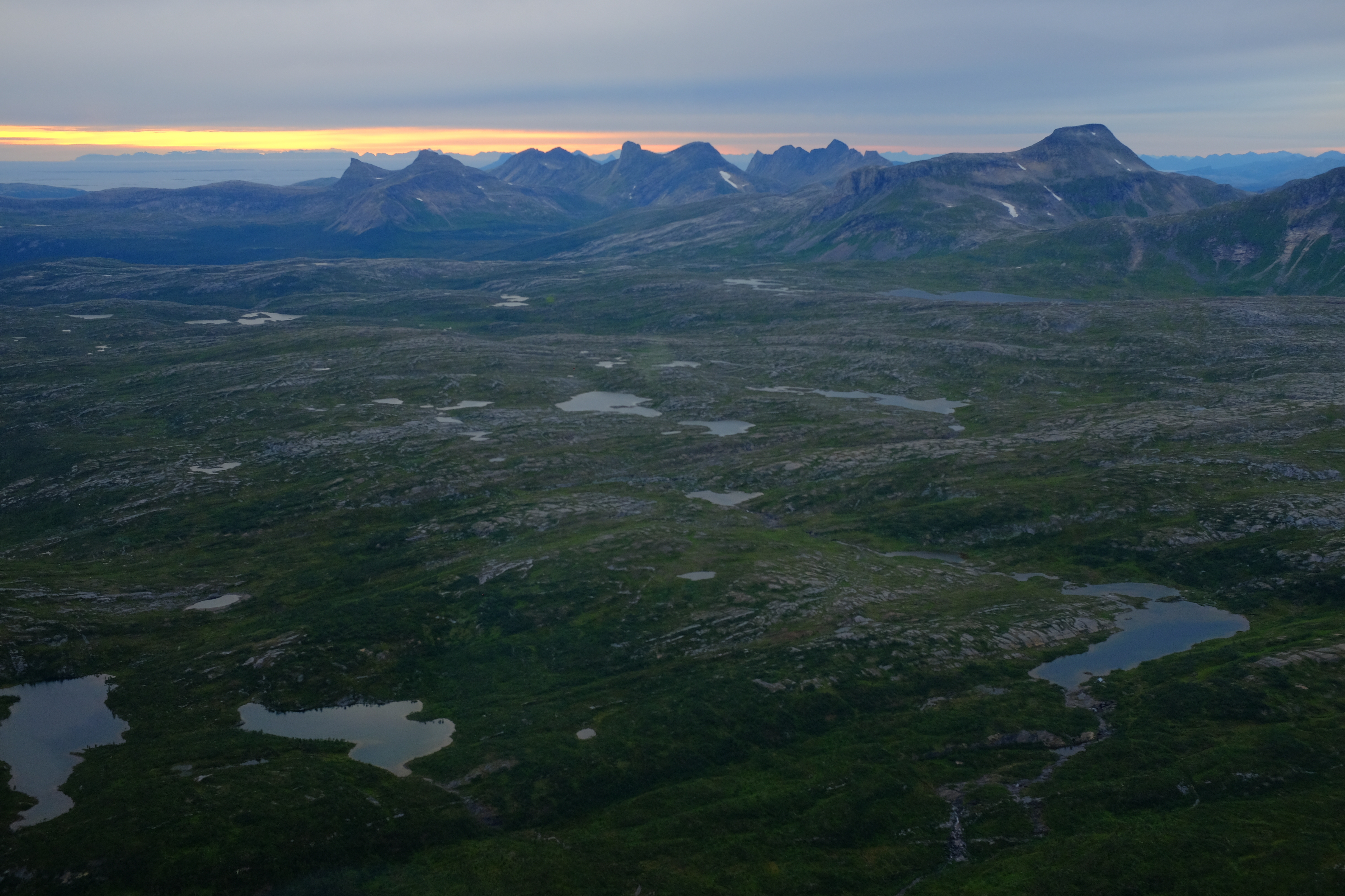 Lurfjelltinden is the high peak on the right. In the background is Børvasstindan peaks. Lurfjelltinden is a mountain in Nordland county on the border between Bodø and Beiarn municipalities. With its 1284 meters above sea level it is the highest mountain in Bodø.